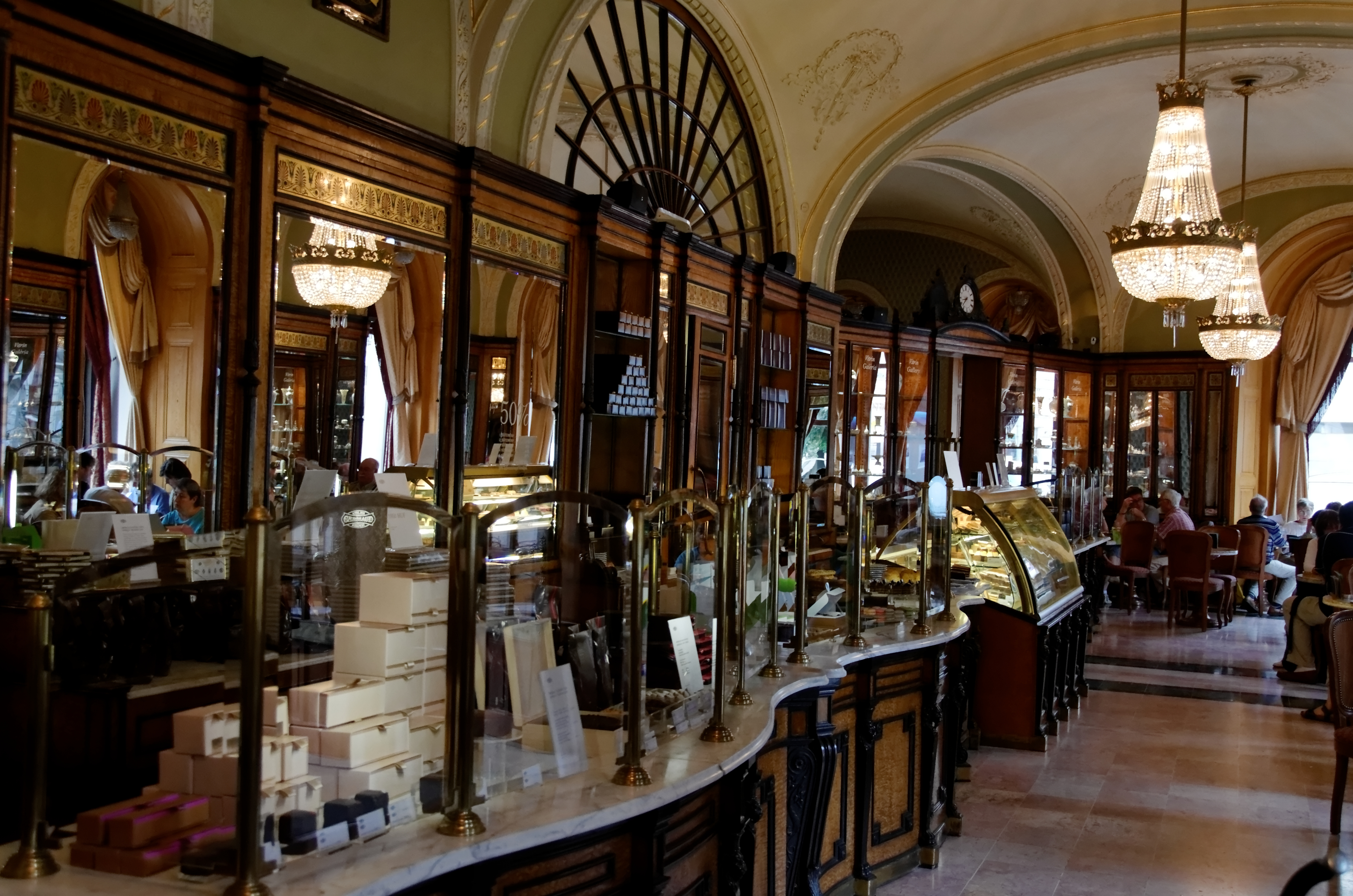 Cafe Gerbeaud in Budapest